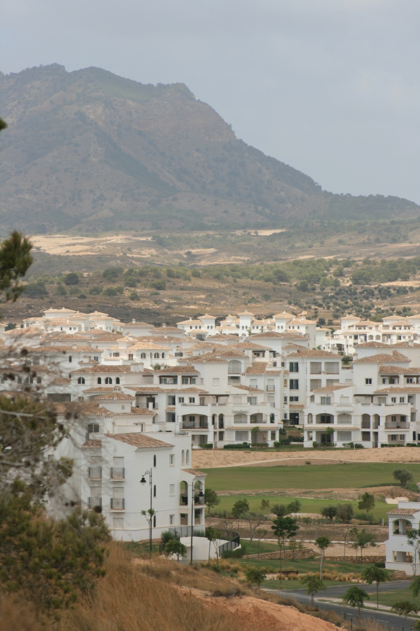 View from the South East corner looking West across the Hacienda Riquelme Golf Restort towards Mt Columbares